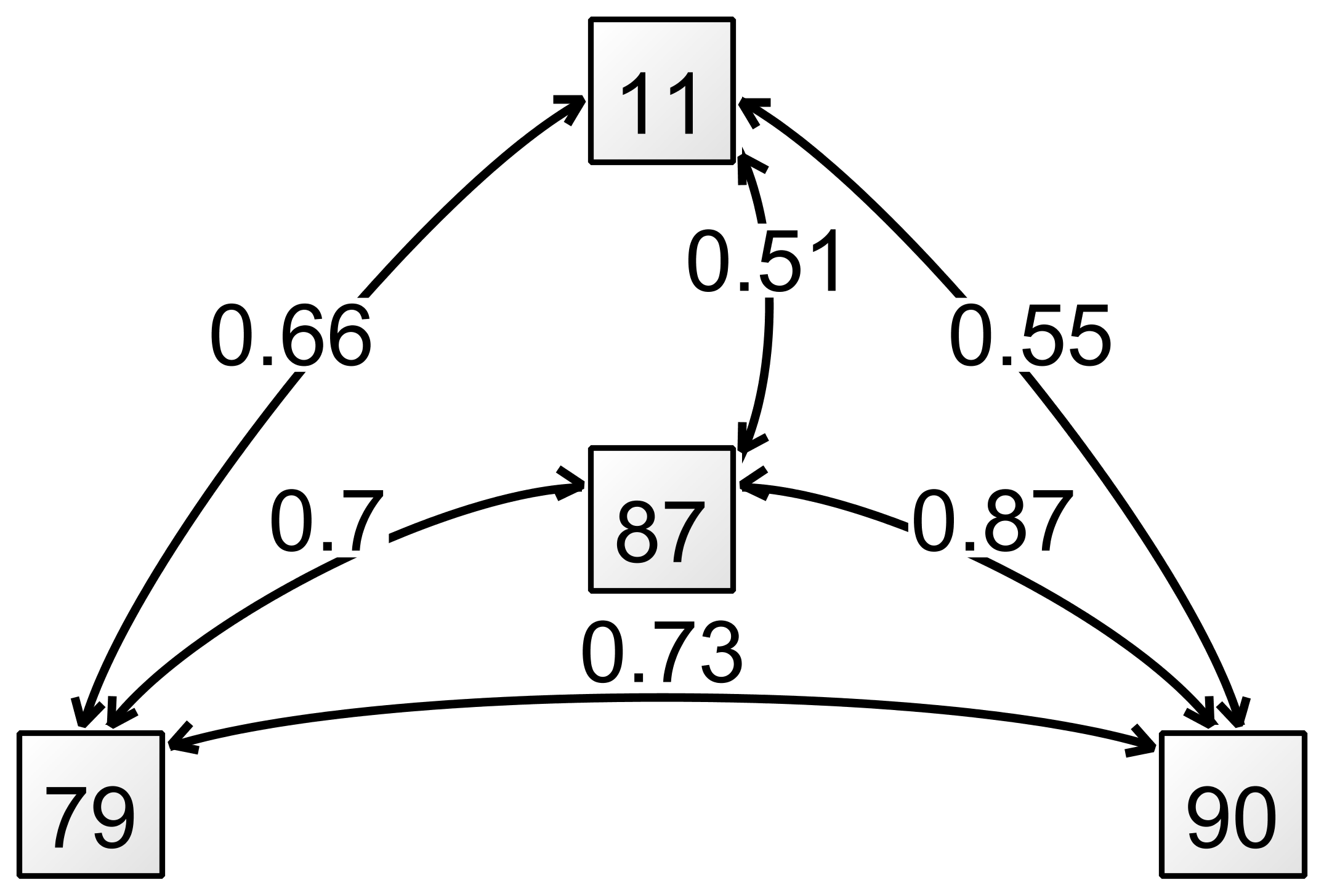 Path diagram of raw correlation coefficients (displayed on the double-headed arrows) between Moray House Test scores at different ages (in years, displayed within square boxes) in the Lothian Birth Cohort 1921. These correlations were originally computed for the following journal articles: Deary, I. J., Whiteman, M. C., Starr, J. M., Whalley, L. J., & Fox, H. C. (2004). The impact of childhood intelligence on later life: Following up the Scottish Mental Surveys of 1932 and 1947. Journal of Personality and Social Psychology, 86(1), 130-147. Gow, A. J., Johnson, W., Pattie, A., Brett, C. E., Roberts, B., Starr, J. M., & Deary, I. J. (2011). Stability and change in intelligence from age 11 to ages 70, 79, and 87: The Lothian Birth Cohorts of 1921 and 1936. Psychology and Aging, 26(1), 232-240. Deary, I. J., Pattie, A., & Starr, J. M. (2013). The Stability of Intelligence From Age 11 to Age 90 Years: The Lothian Birth Cohort of 1921. Psychological Science, 24(12), 2361-2368.